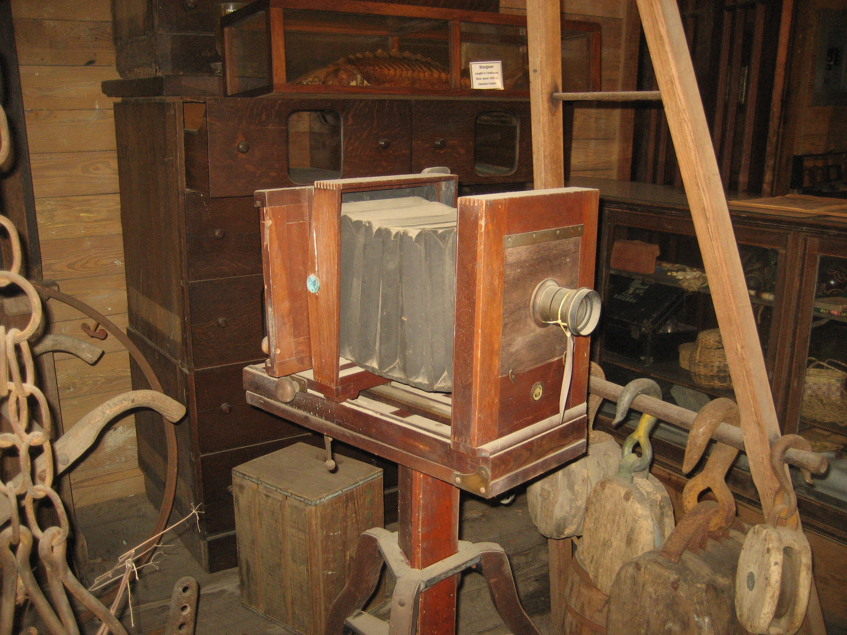 Display in H.J. Smith's, Covington, Louisiana old town section. Old bellows camera.